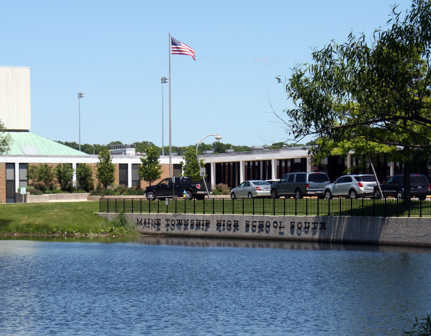 A view of Maine South High School from the south.